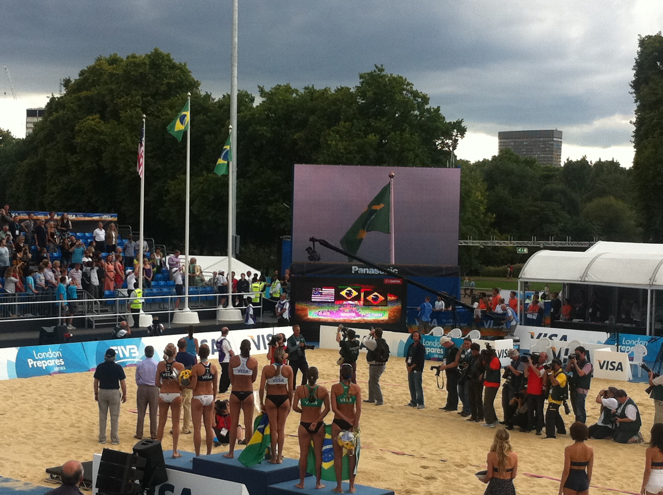 Medal ceremony of the VISA FIVB Beach Volleyball International. Lili and Vieira of Brazil are on the top step in the centre. Kessy and Ross are the silver medalists standing to the left of the winners. Bronze medalists Vivian and Lima also from Brazil are standing on the right.